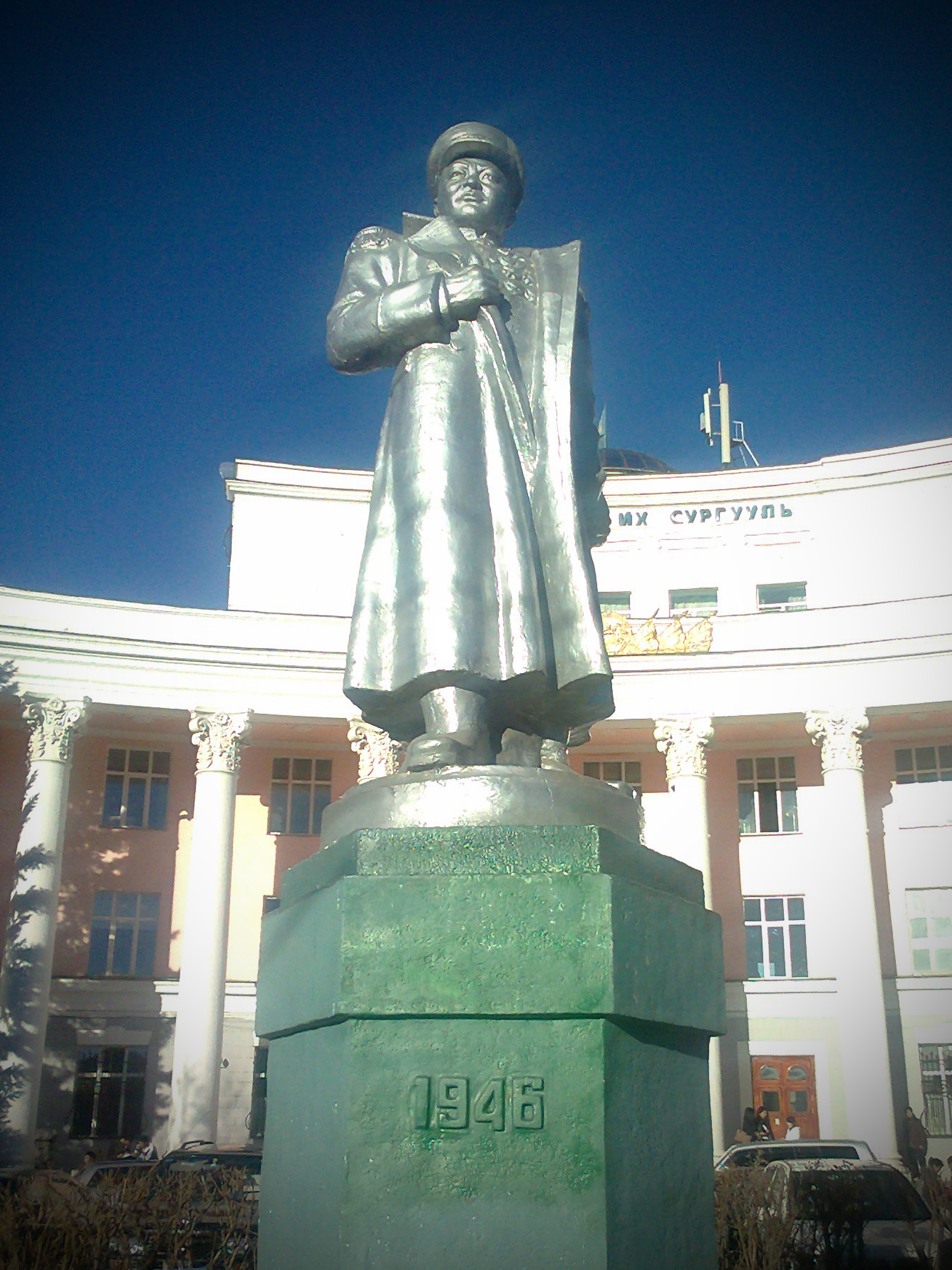 Statue of Khorloogiin Choibalsan in front of The National University of Mongolia